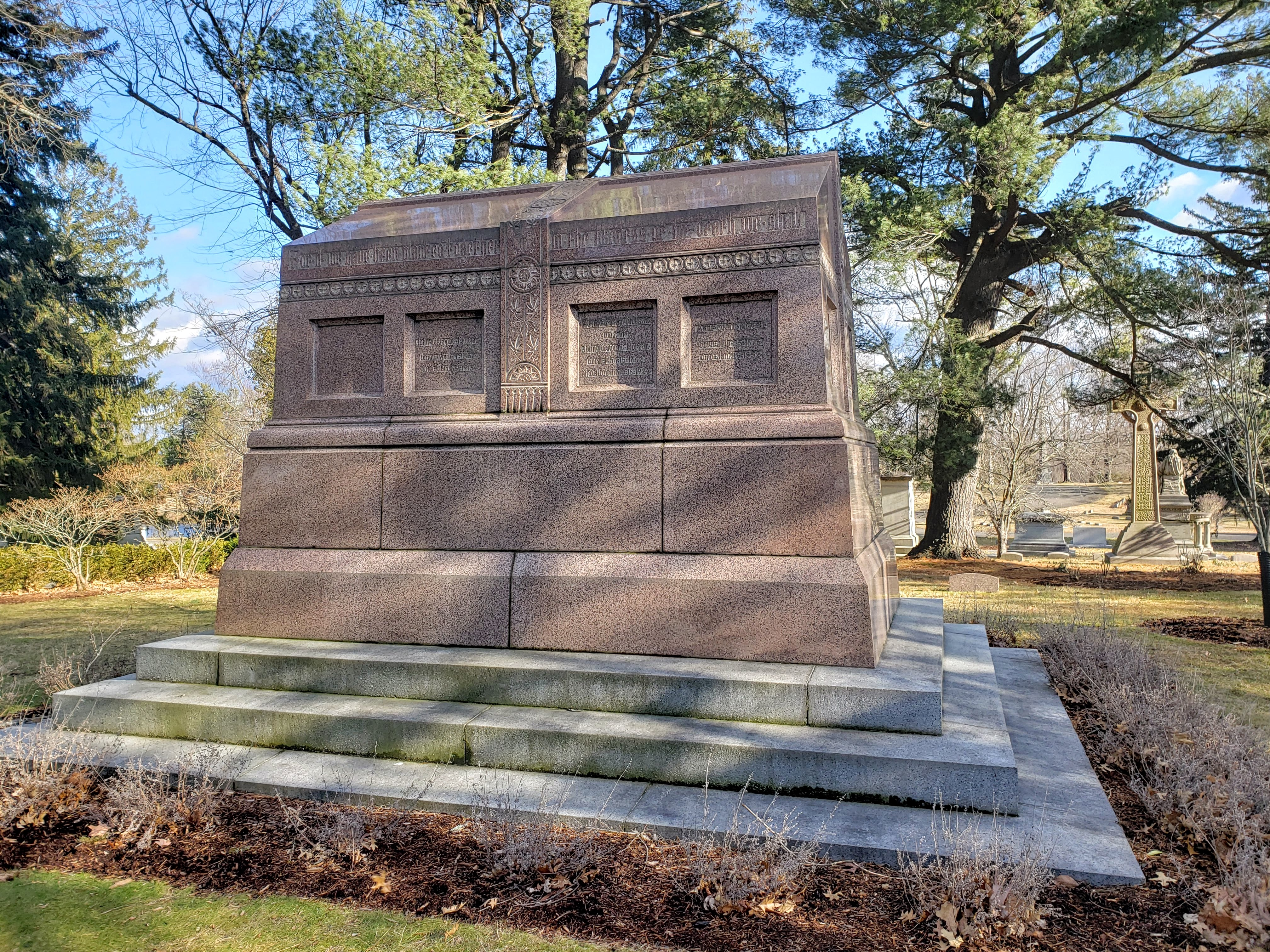 John Pierpont Morgan and John Pierpont Morgan Jr. memorial in Cedar Hill Cemetery in Hartford, Connecticut. Photo taken January 2020.